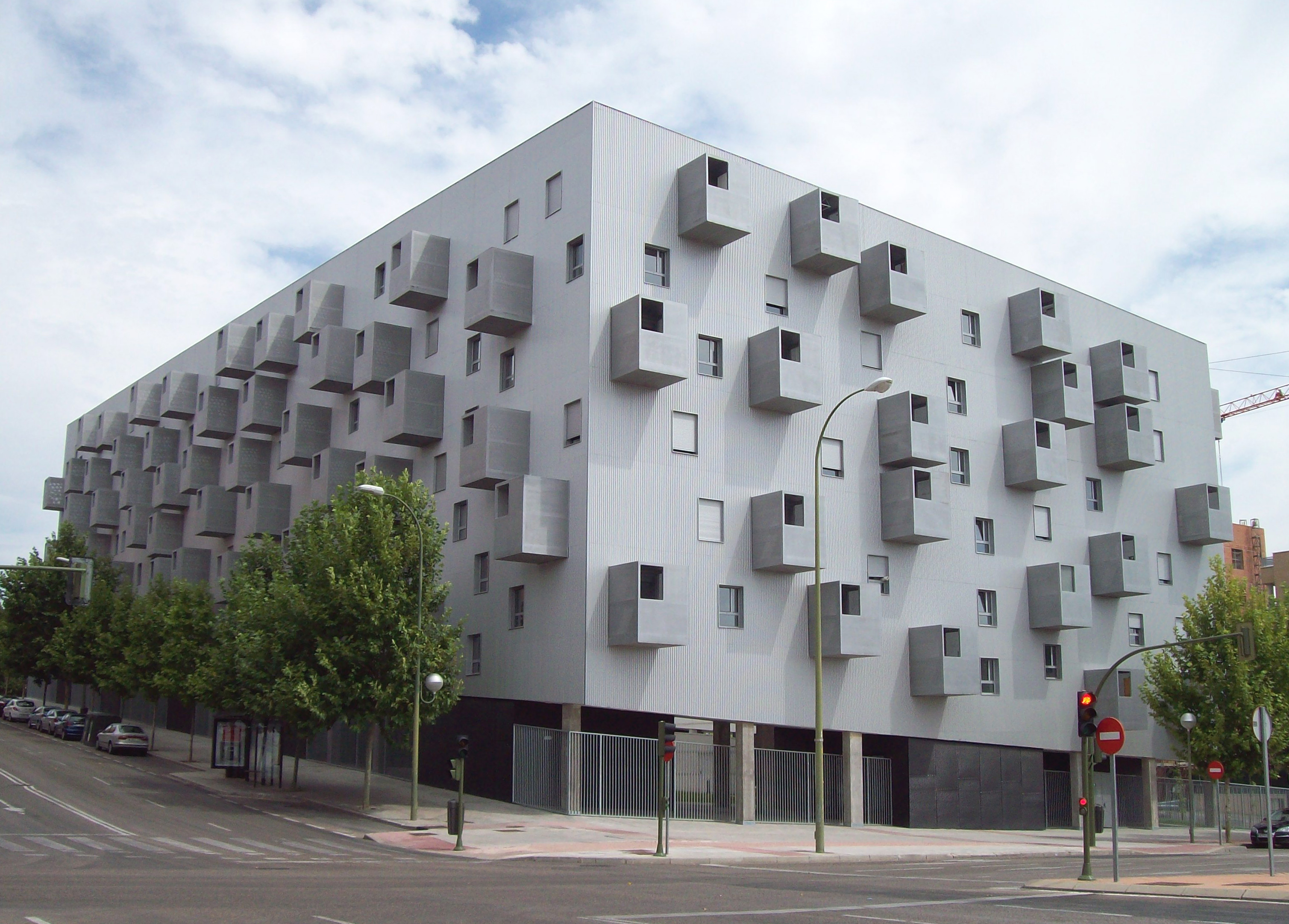 View of Carabanchel 31 building in Madrid (Spain) from the south-west angle.